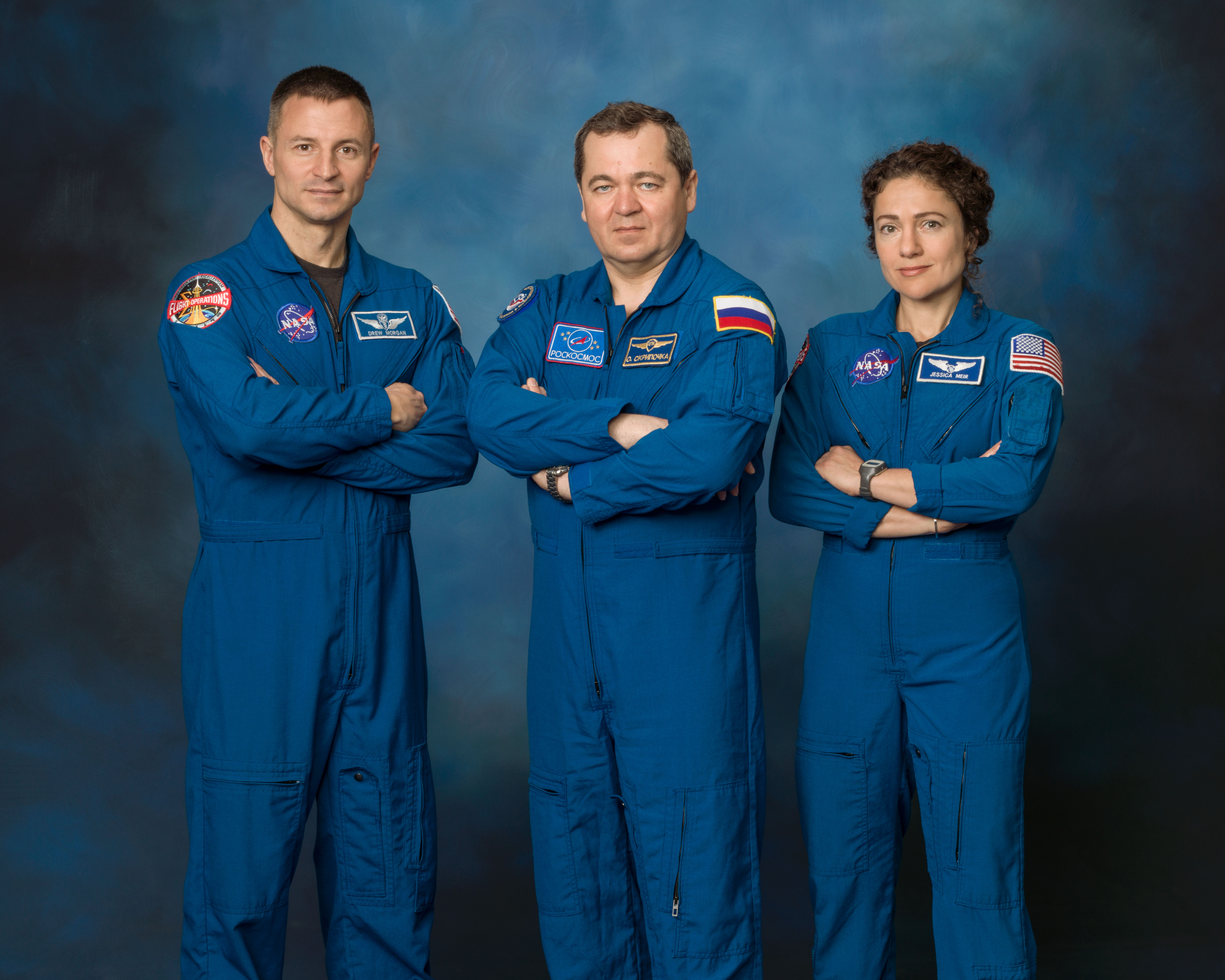 Expedition 62 crew portrait with NASA astronaut Andrew Morgan, Roscosmos cosmonaut Oleg Skripochka and NASA astronaut Jessica Meir.